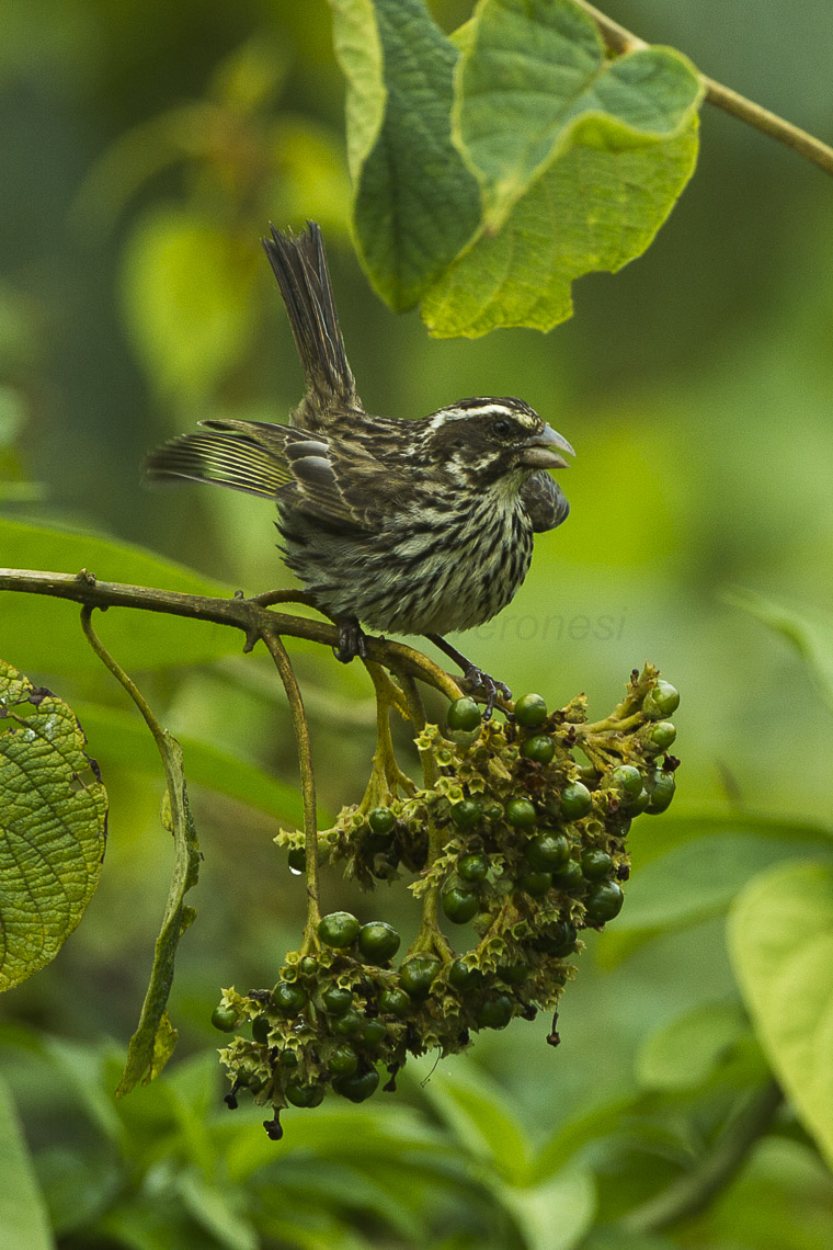 Streaky Seedeater - Kenya_S4E6947